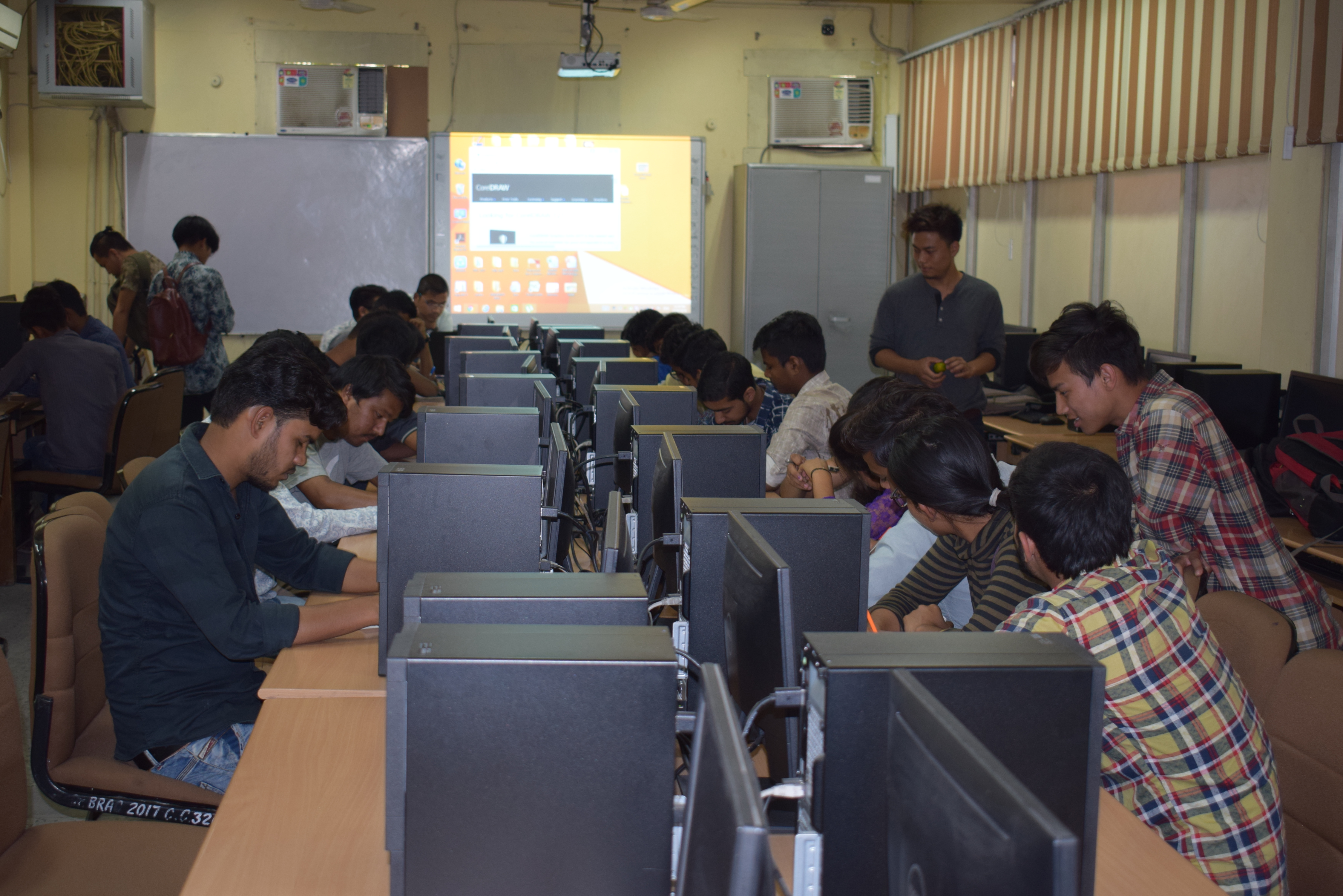 BRAC computer Lab